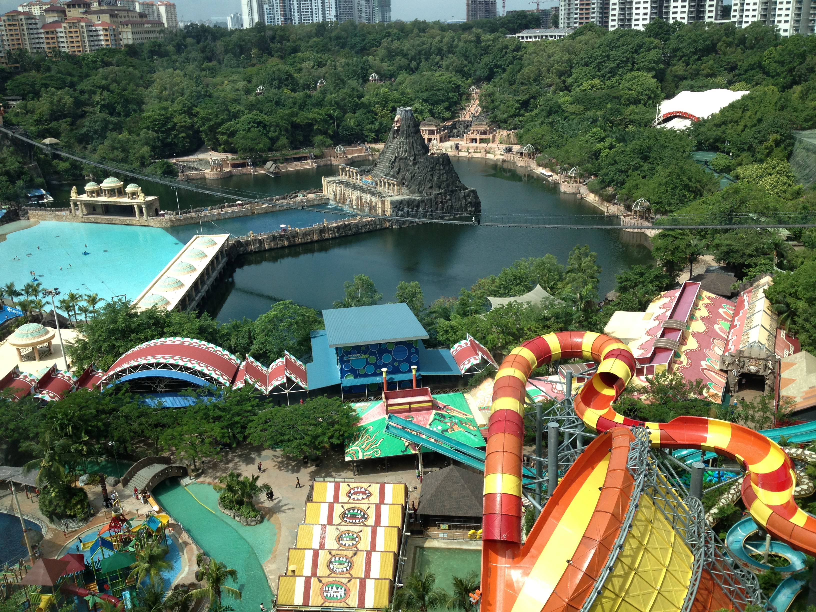 Description: Panning Sunway Lagoon. Taken by myself from an adjacent rooftop. There are 9 detail points visible.